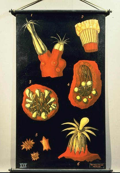 Oil on canvas of Egisto Tortori where we can observe various details of the morphology of red coral and of its development cycle.